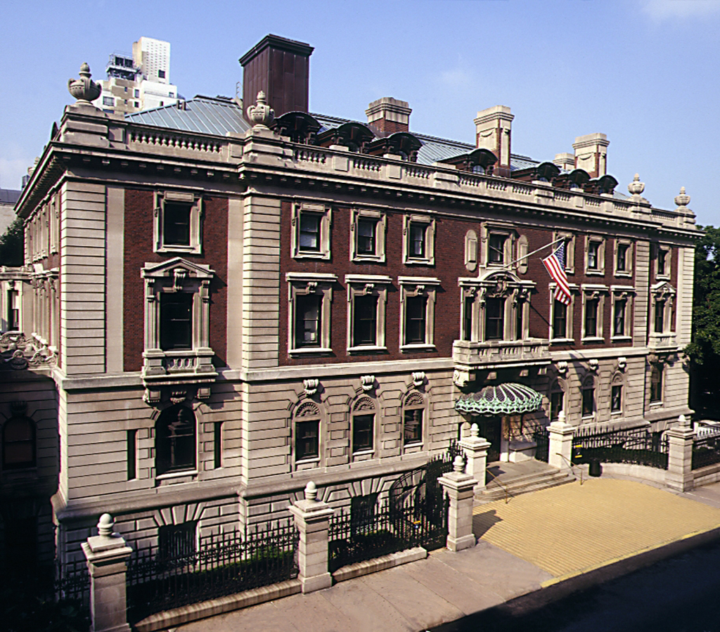 Facade of the Andrew Carnegie Mansion. Home of the Cooper-Hewitt, National Design Museum.